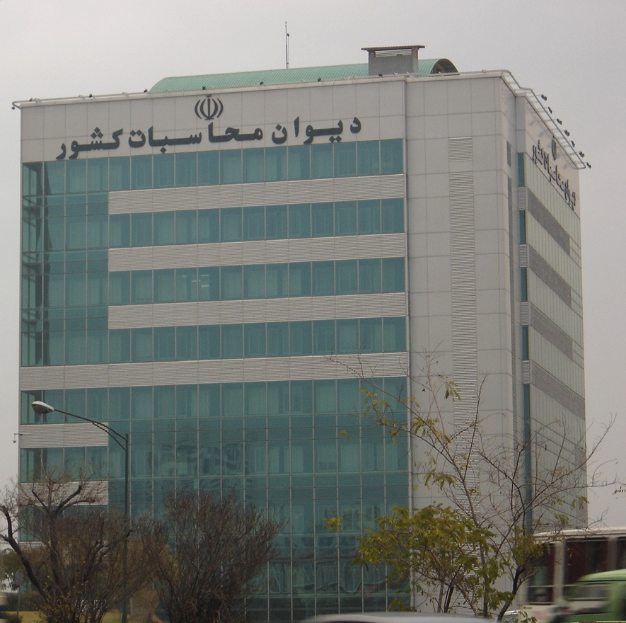 Supreme Audit Court of Iran, Tehran